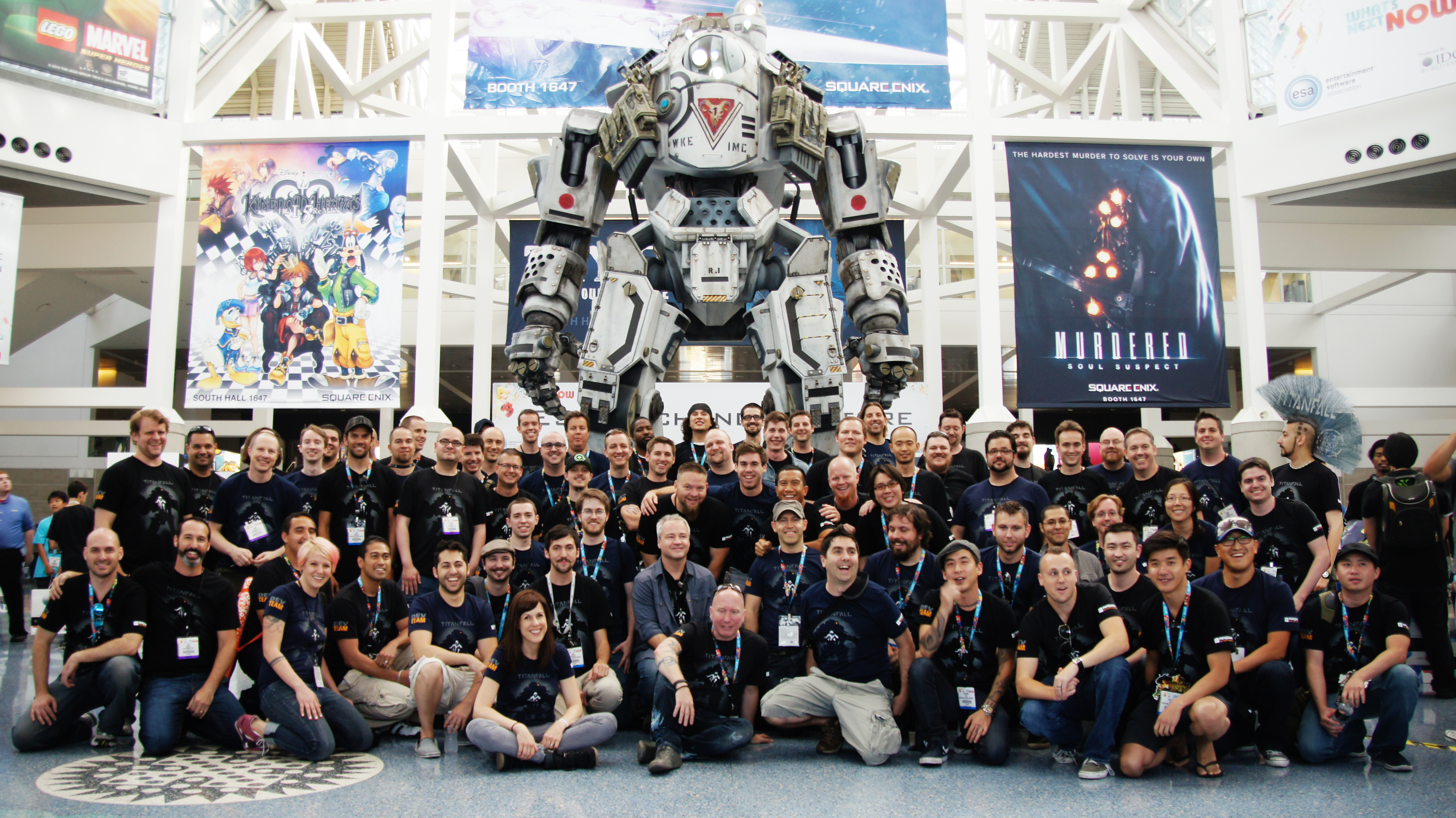 Photo of Respawn Entertainment Titanfall team at E3 2013